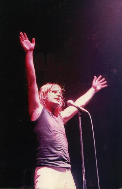 Ozzy Osbourne in Cardiff 1981